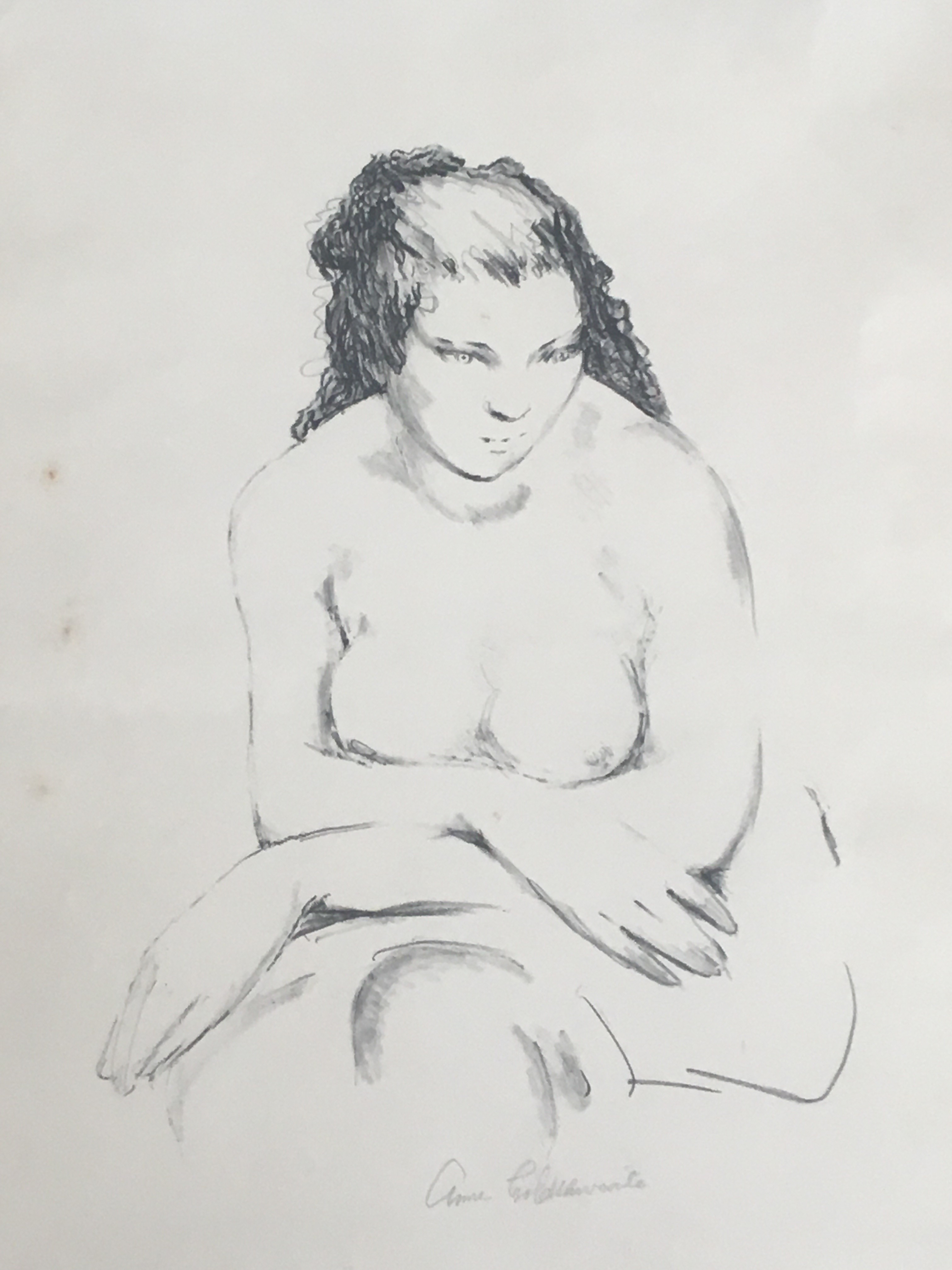 Selma (No. 1), lithograph c. 1933 by Anne Goldthwaite. Personal collection of artist's family.